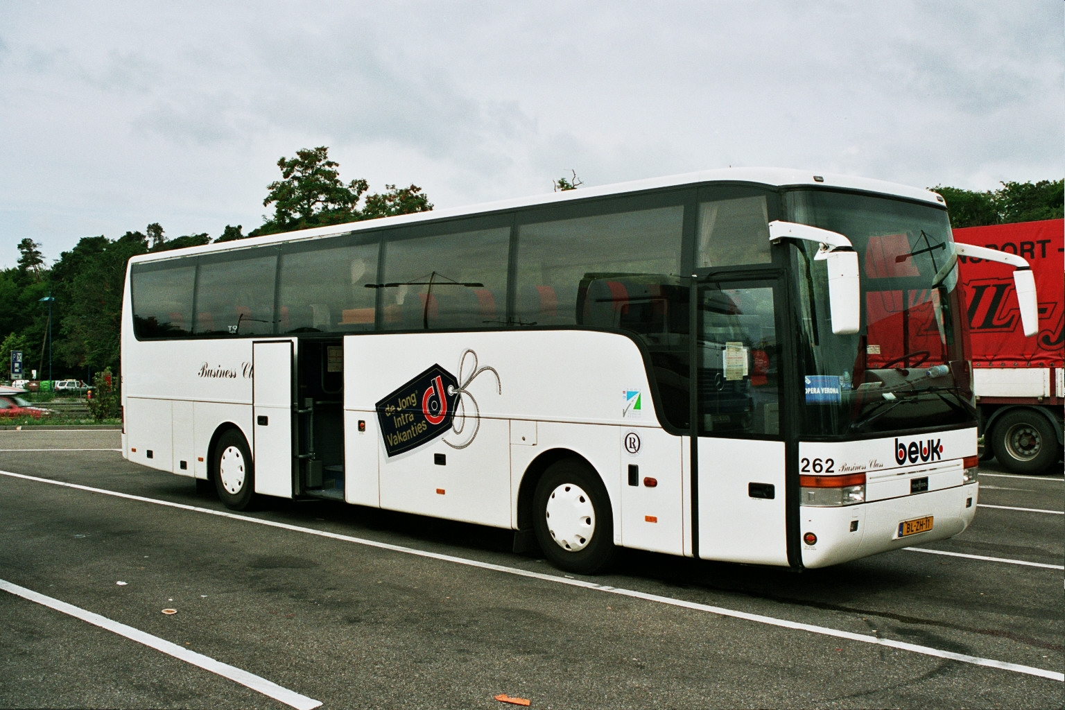 Van Hool coach. T9 series?